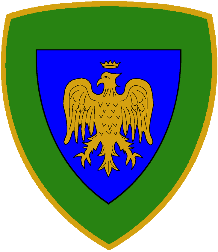 Coat of Arms of the Italian Army Alpine Brigade Julia